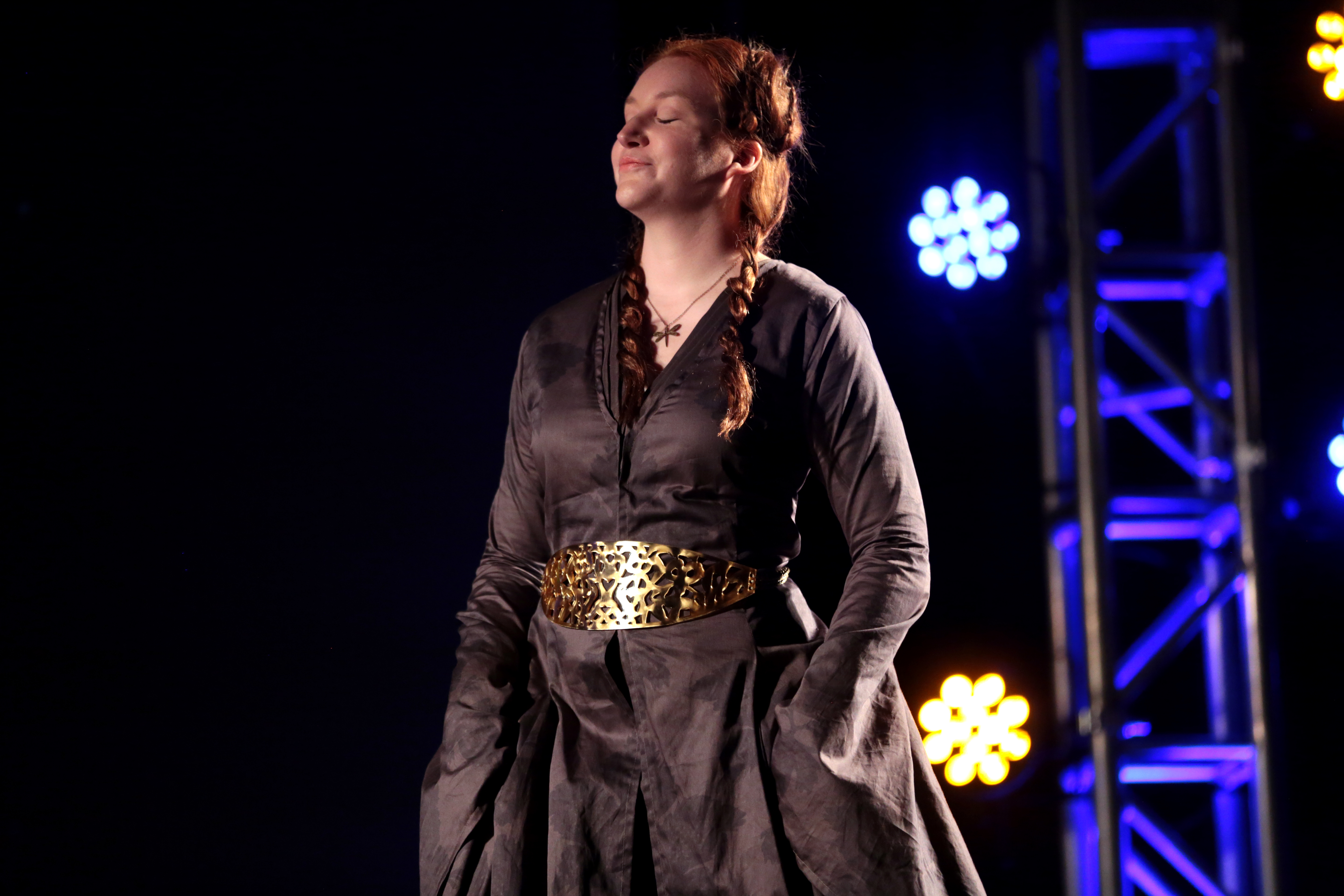 Sansa Stark cosplayer at the 2017 Con of Thrones at the Gaylord Opryland Resort & Convention Center in Nashville, Tennessee.